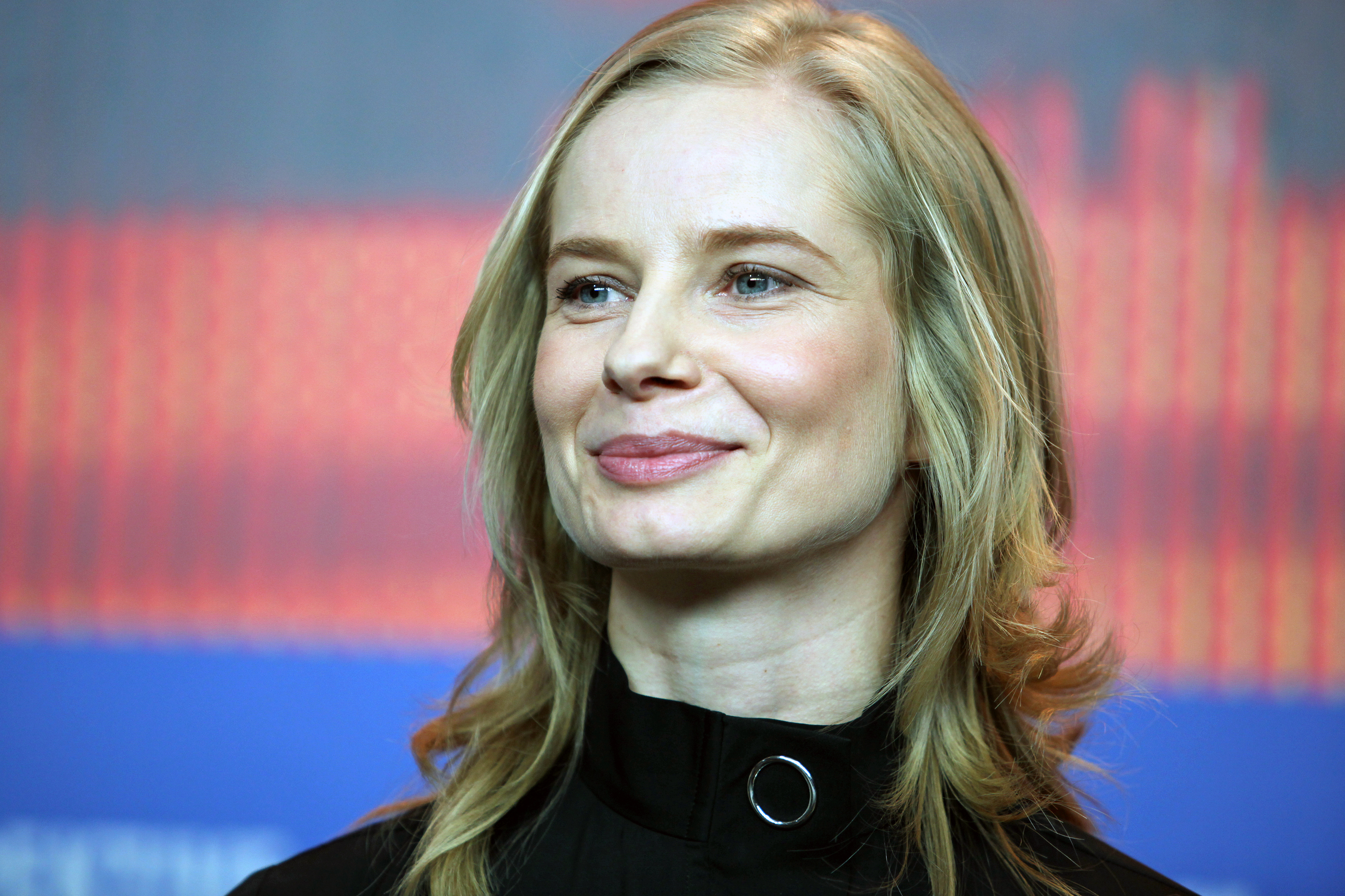 Polish actress Magdalena Cielecka at the Berlinale 2016.